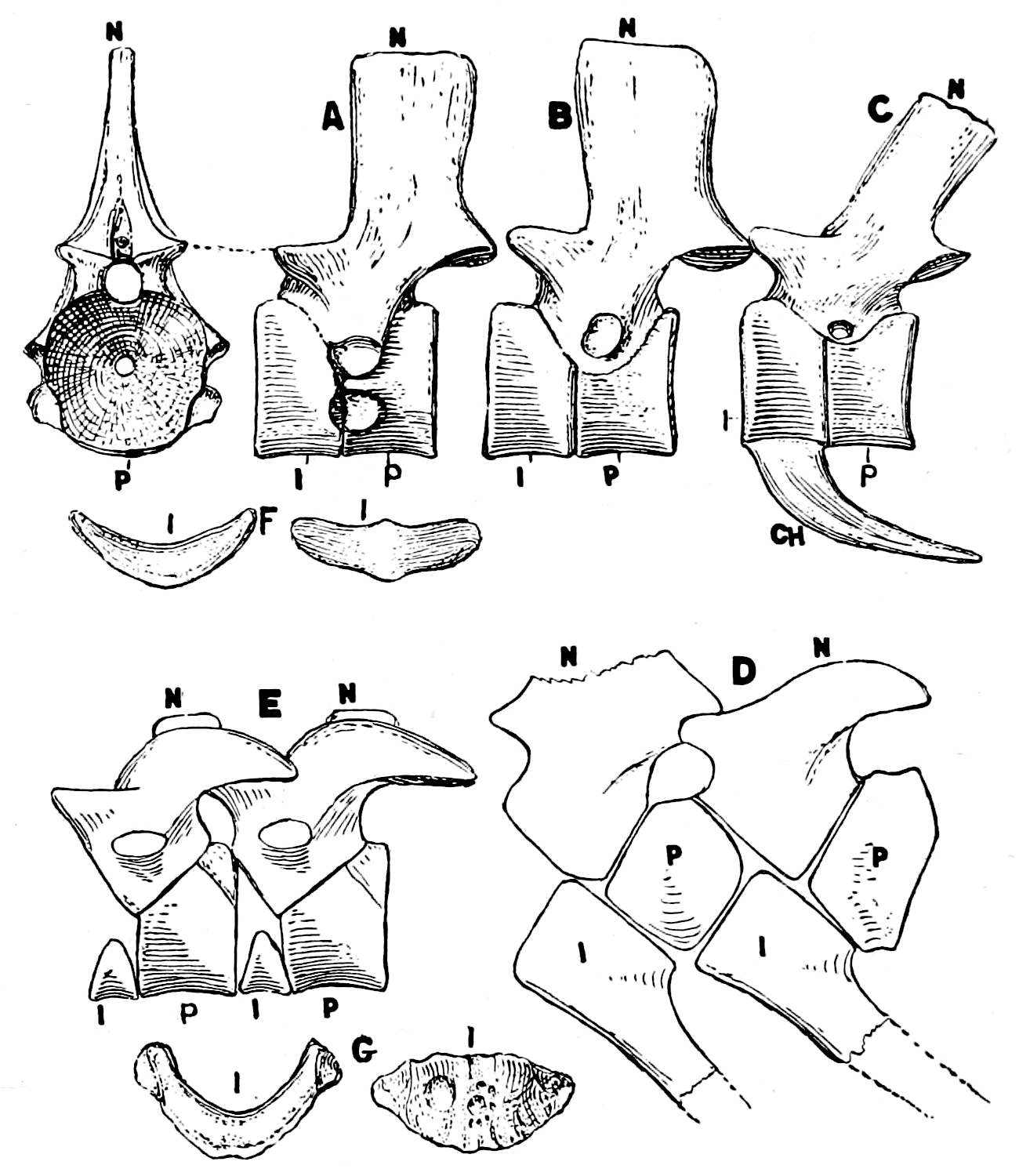 Illustration of the vertebrae of major reptile groups from The Osteology of the Reptiles (1925)